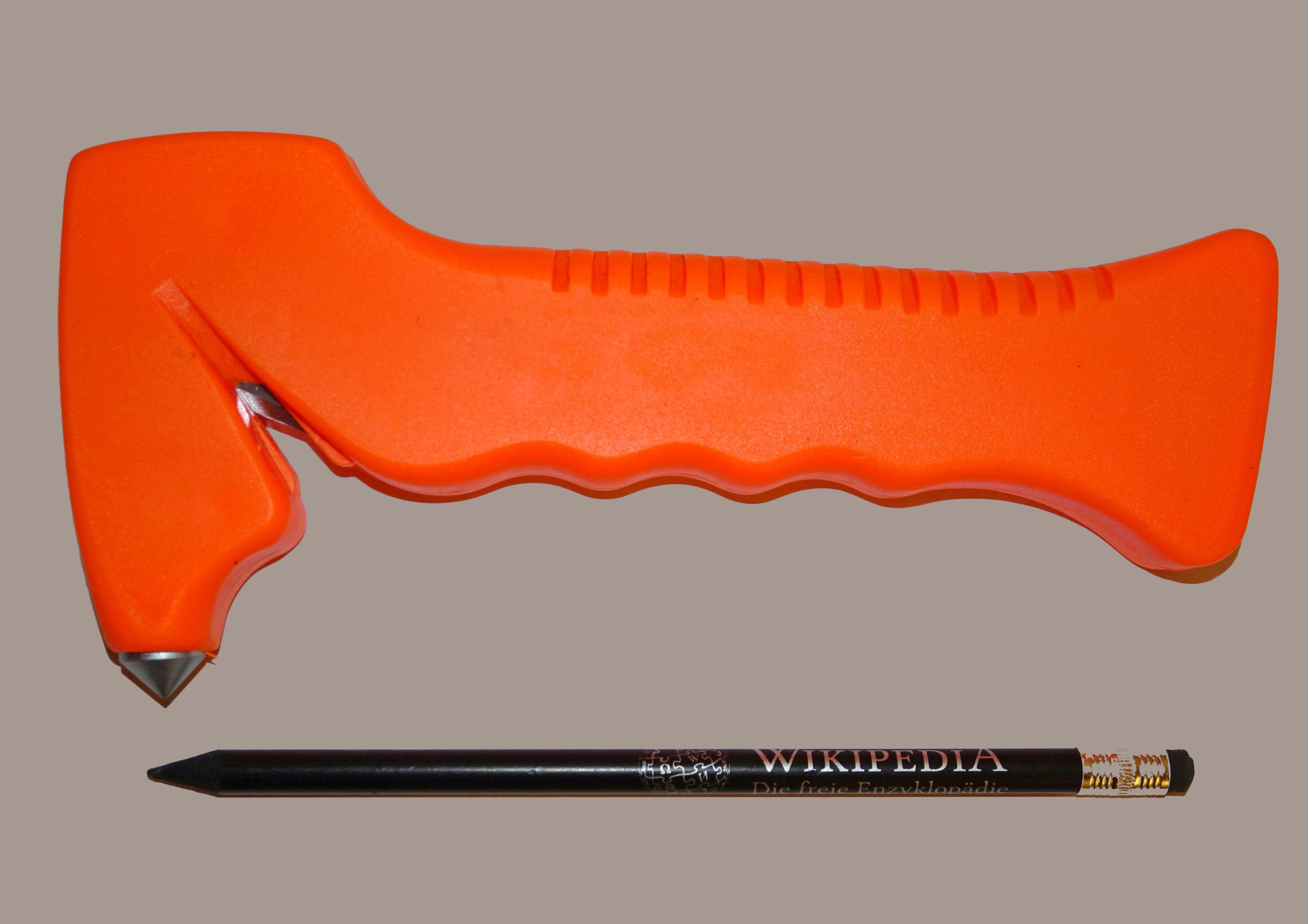 Emergency Hammer in combination with a knife for cutting a safety belt in case of a traffic collision. A pencil for size comparison